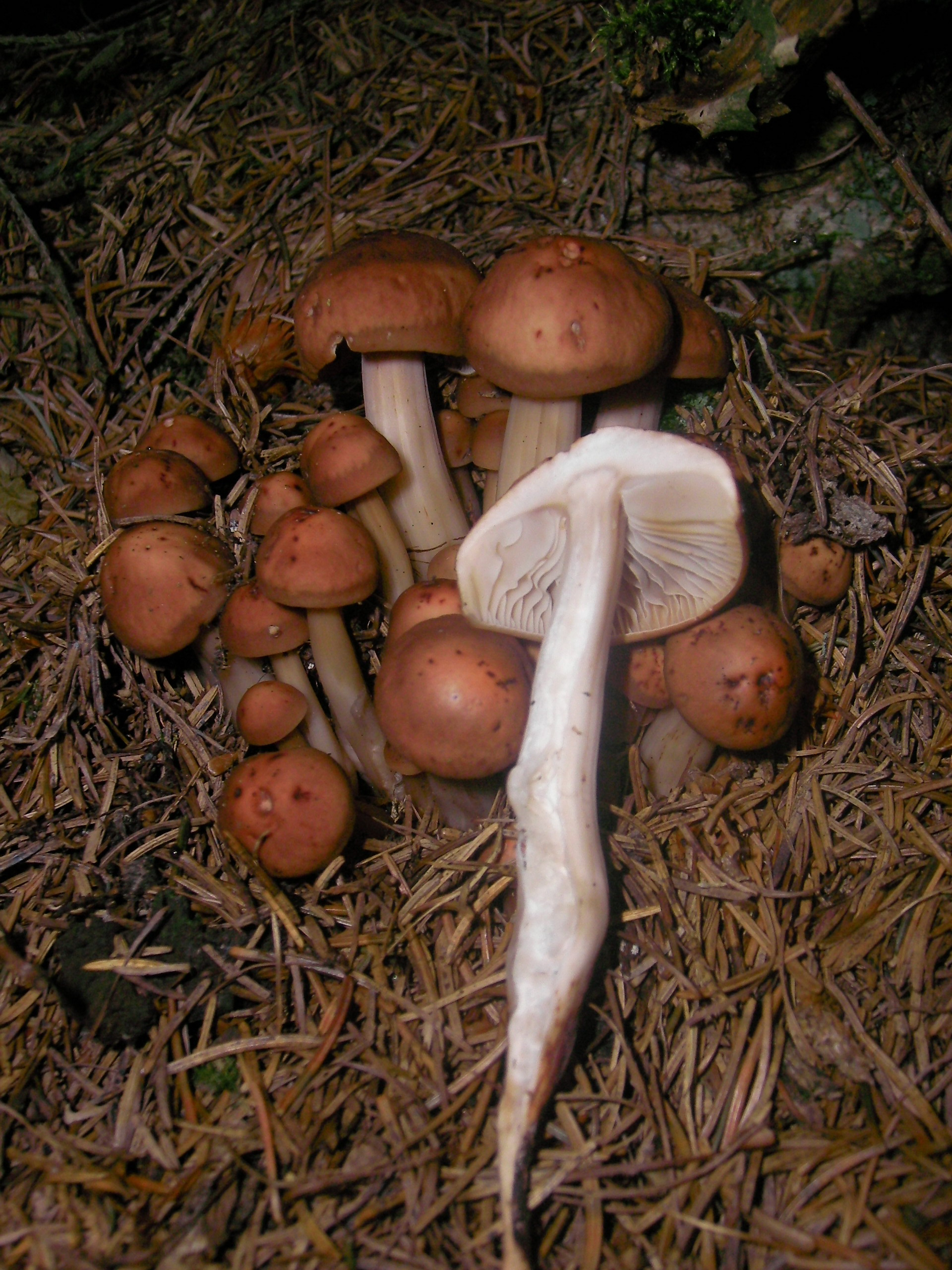 Fungi, Collybia fusipes